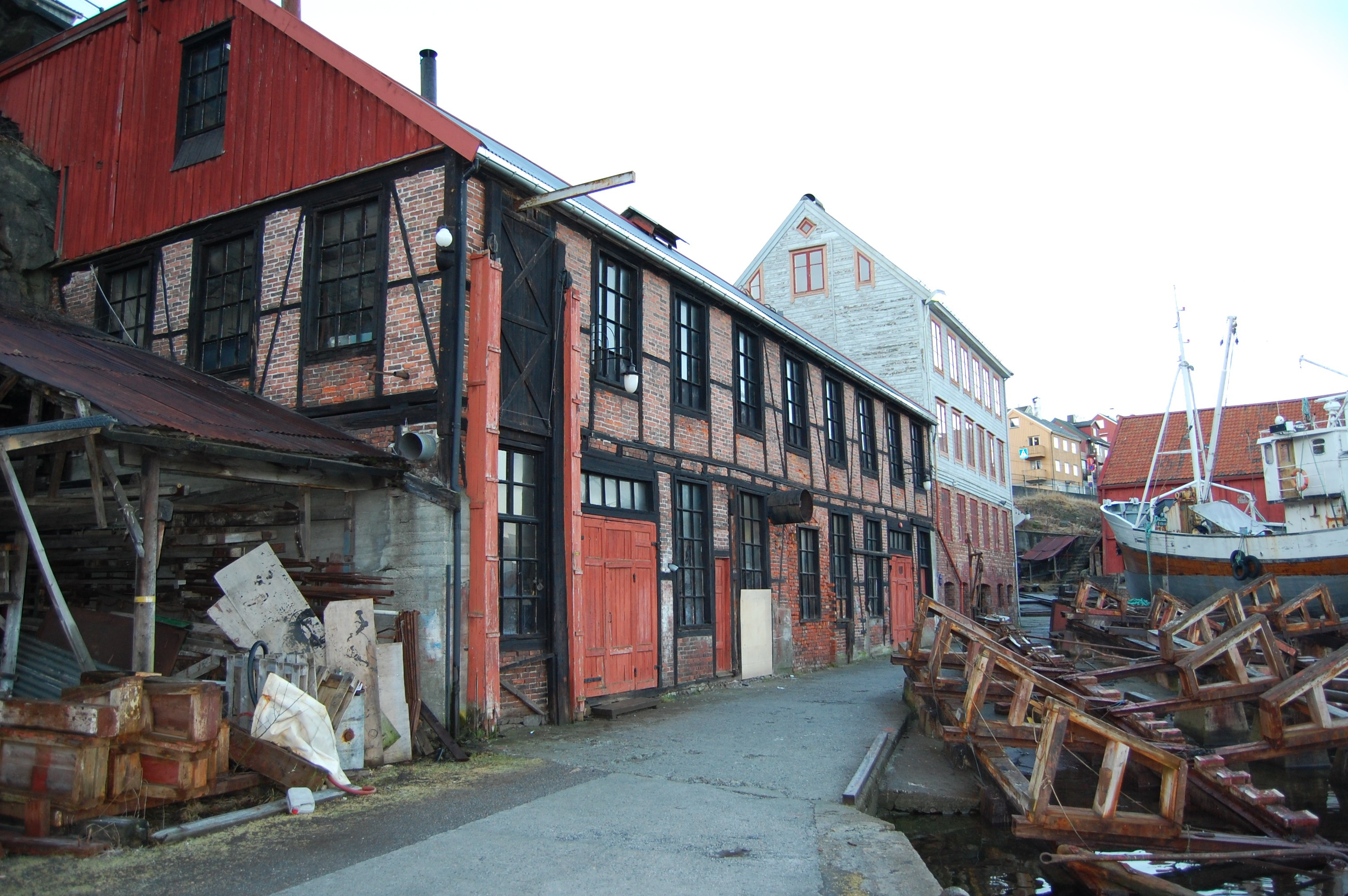 Mellemværftet shipyard, a part of Nordmøre museum in Kristiansund